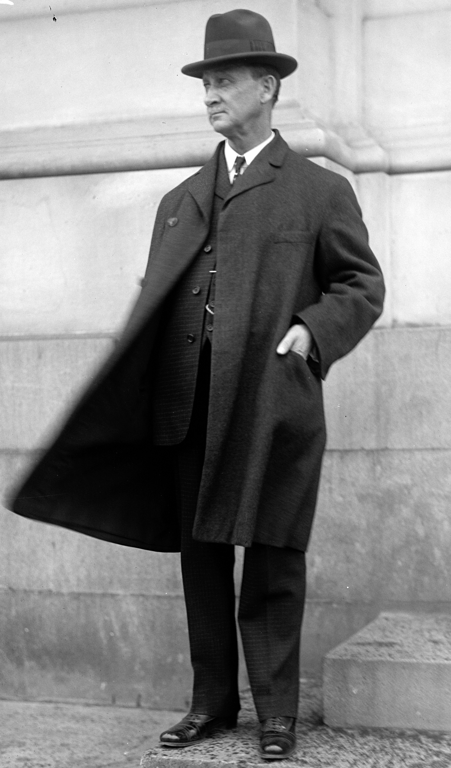 Warren Worth Bailey, US Representative from Pennsylvania